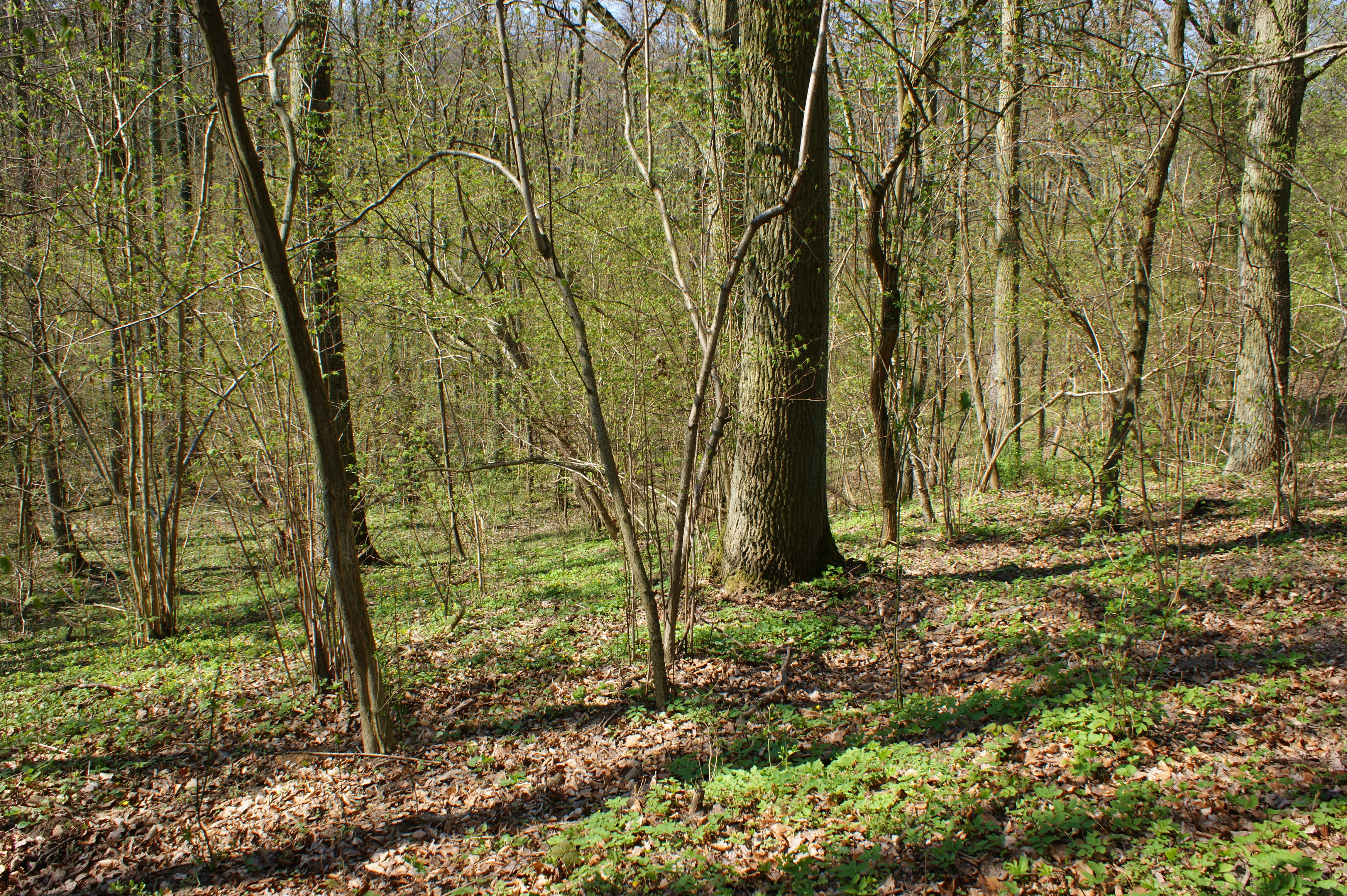 Projected nature reserve "Kamienieckie Wąwozy" near Kamieniec in Kołbaskowo Commune (NW Poland). Oak-hornbaum forest, habitat of very rich population of Corydalis pumila